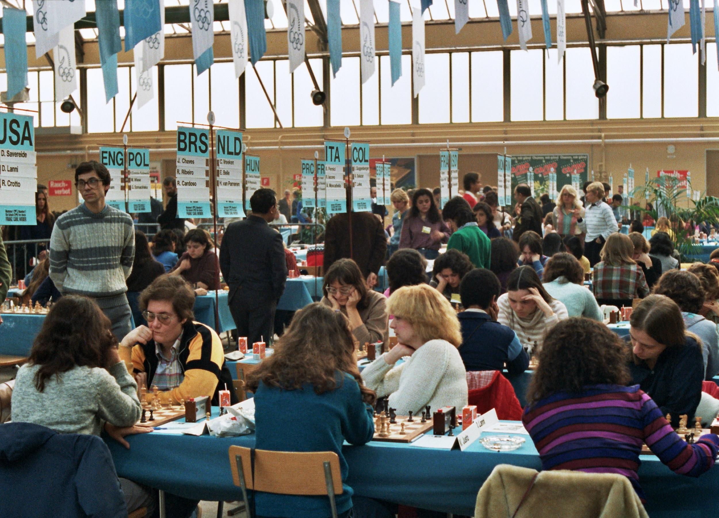 Chess Olympiad 1982 in Lucerne, USA (Crotto, Lanni, Savereide) in the sports hall, Photographer Gerhard Hund.